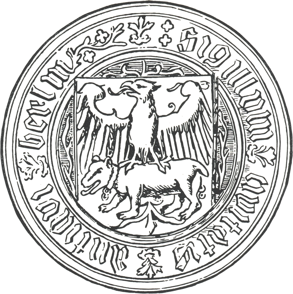 Seal of Berlin from 1460 to 1709.